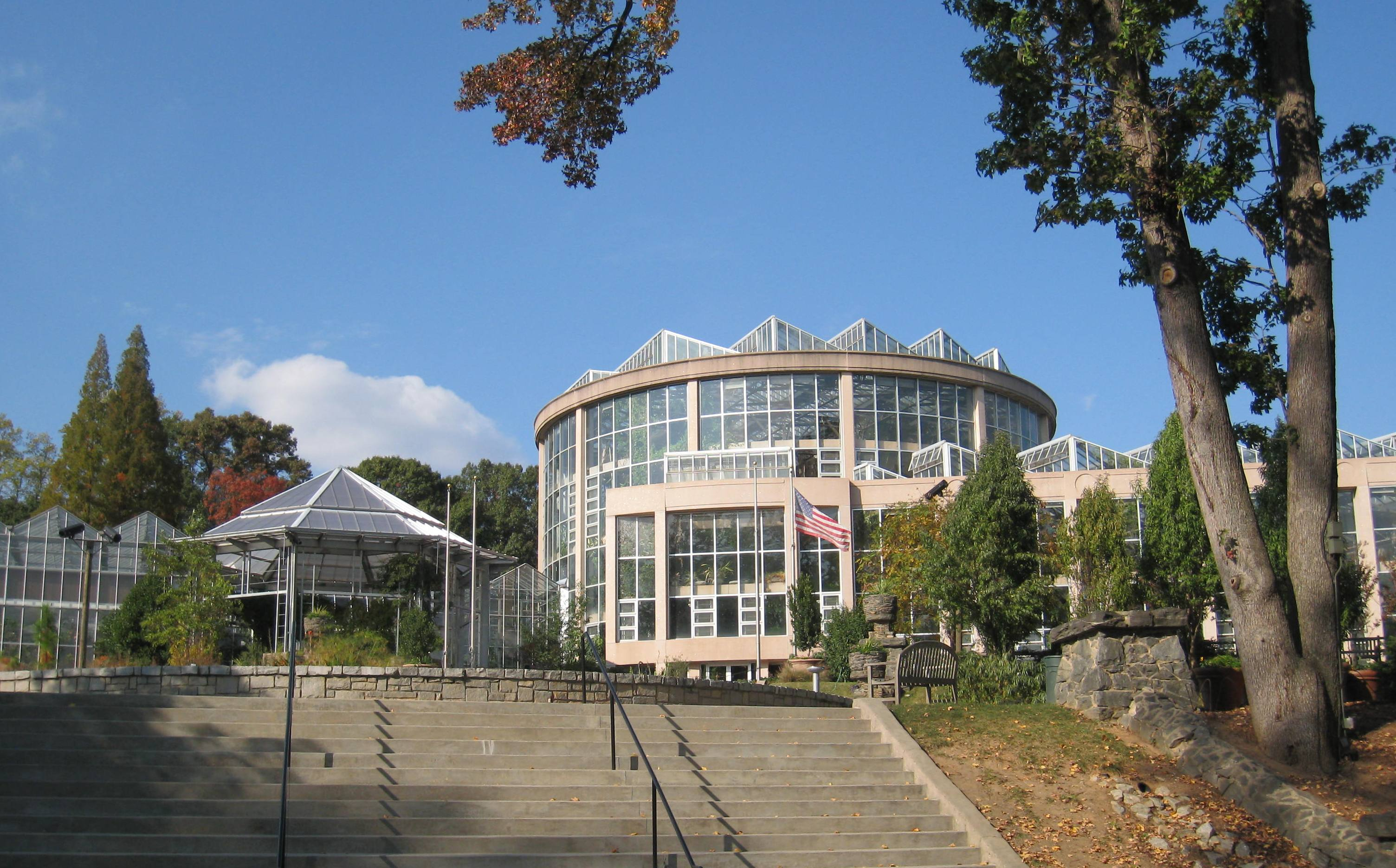 Dorothy Chapman Fuqua Conservatory, Atlanta Botanical Garden, Atlanta, Georgia, USA.